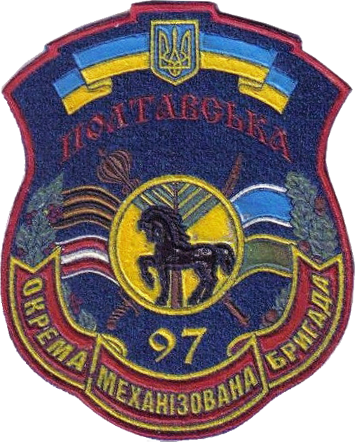 Shoulder sleeve insignia of the Ukrainian Army 97th Mechanized Infantry Brigade